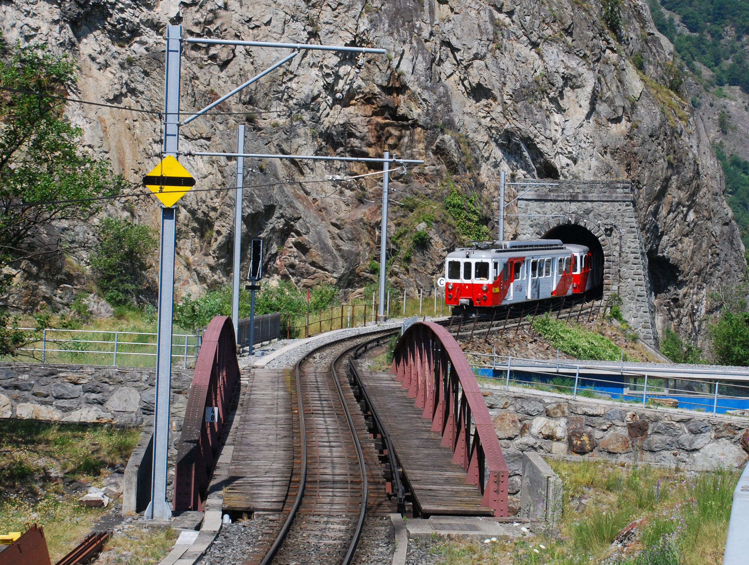 Bridge over Trient river in Vernayaz